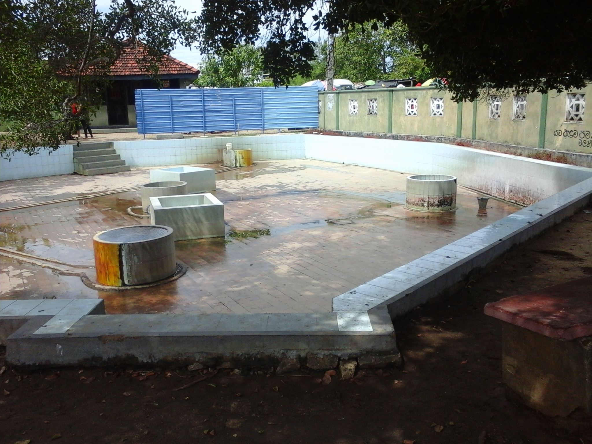 Maha oya Hot water springs